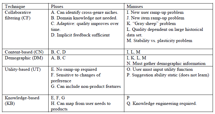 Tradeoffs between Recommendation Techniques, Burke